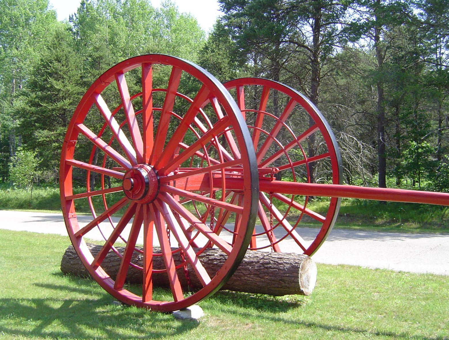 Big Wheels with log